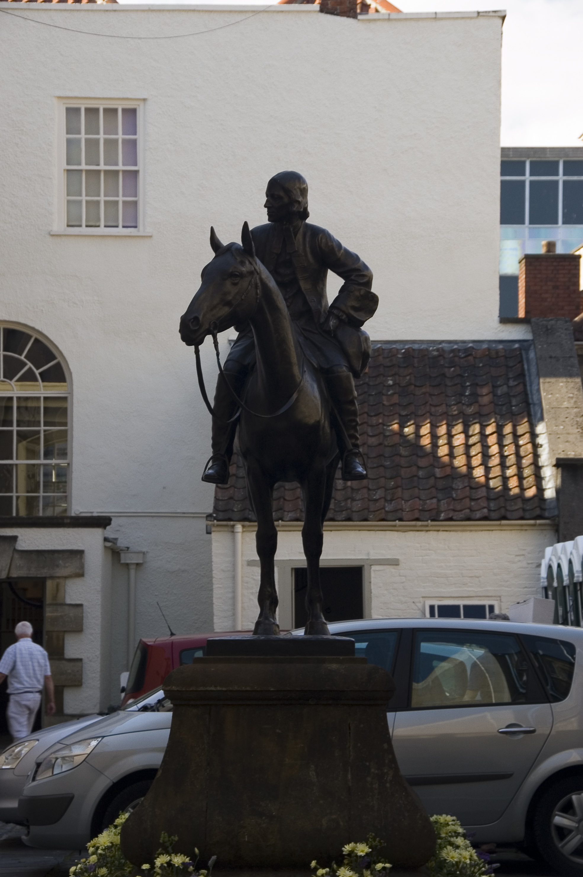 John Wesley's chapel, Bristol